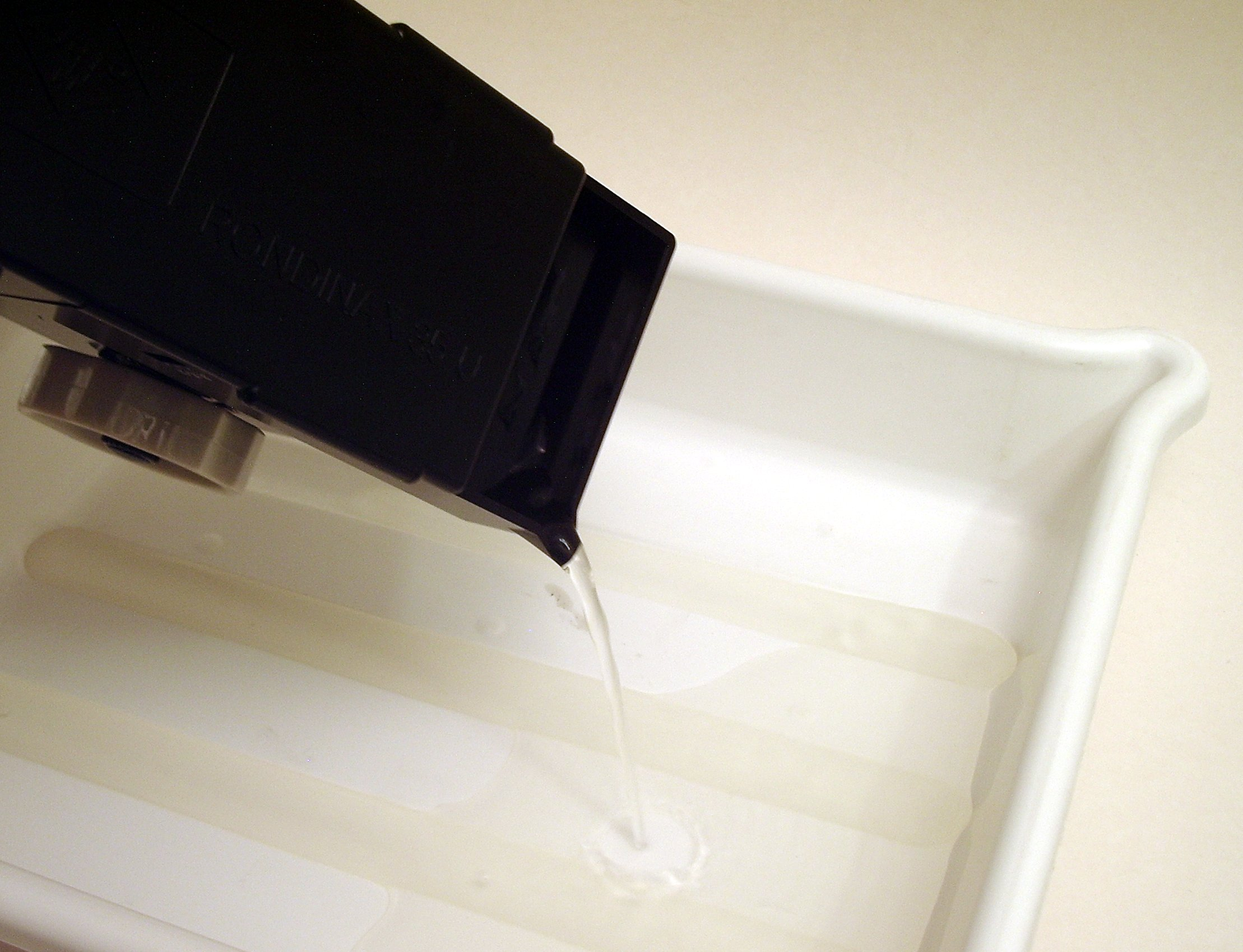 Agfa Rondinax 35 U / Fixierbad ausgiessen- Agfa Rondinax 35 U / Pouring out the fixing-bath agent.